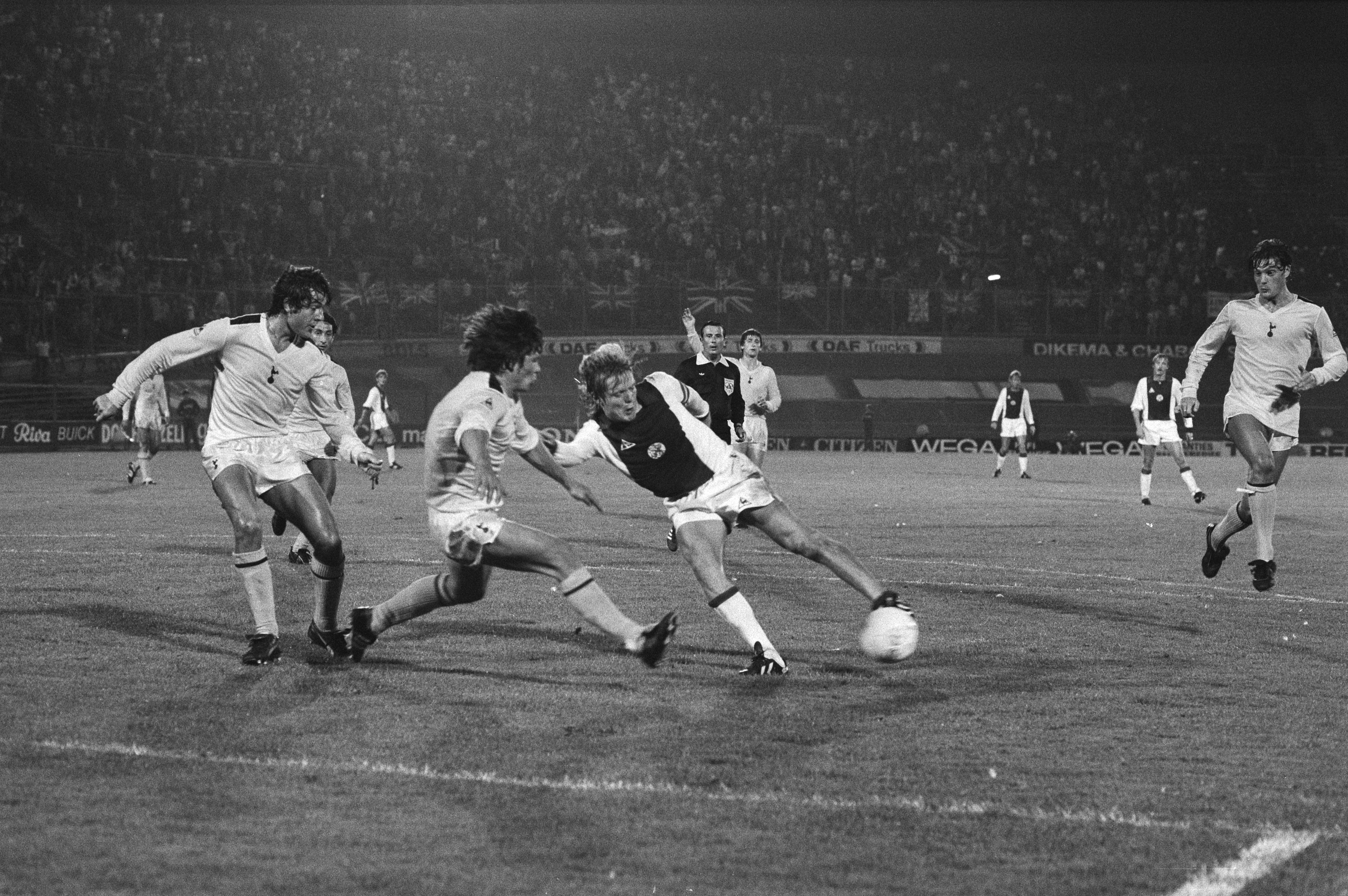 European Cup Winners' Cup first round match between Ajax and Tottenham Hotspur. Spurs won 1-3 (1-6 aggregate), Søren Lerby here scoring the only goal for Ajax, Steve Perryman attempting to intercept. Spurs eventually lost in the semifinal against Barcelona in the cup. Also in the picture are Paul Miller, Osvaldo Ardiles and Glenn Hoddle.